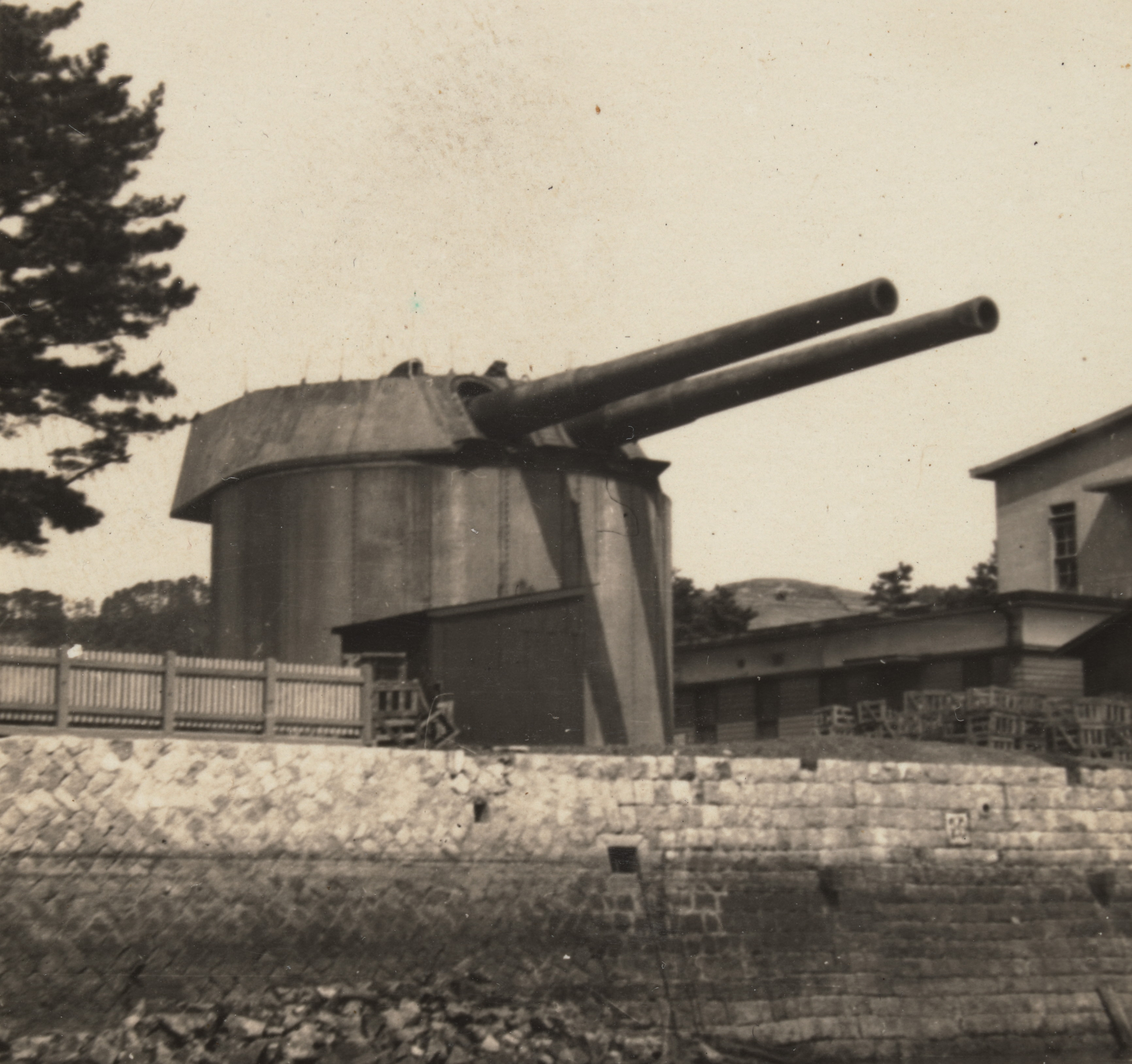 Mutsu's original No. 4 turret at the Imperial Japanese Naval Academy, Eta Jima. Cropped from State Library of Victoria H2009.15/194